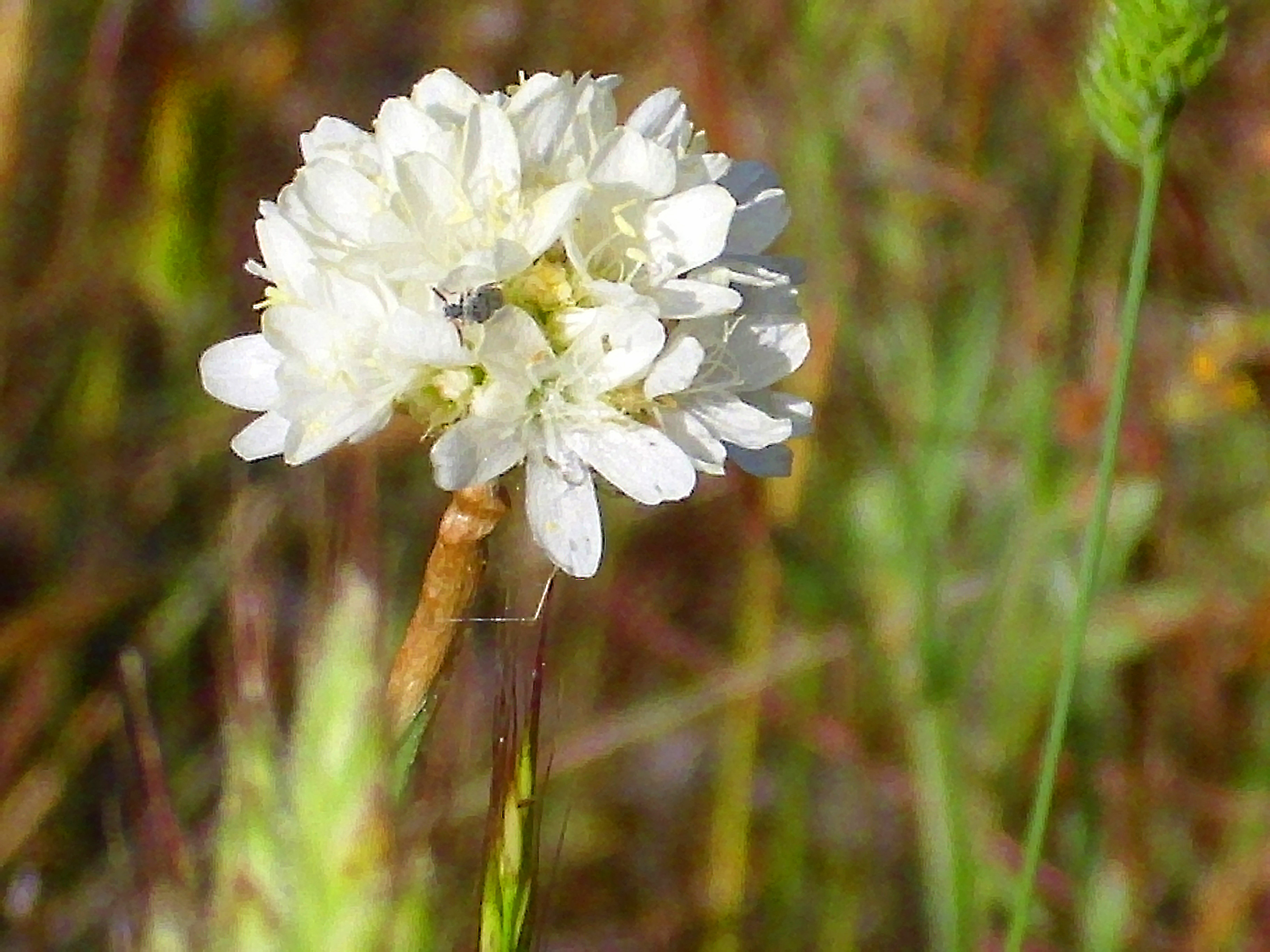 Armeria villosa inflorescence, Sierra Madrona, Spain